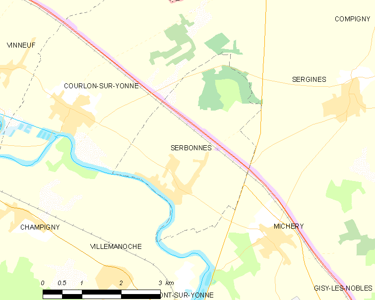 Map of French municipality Serbonnes